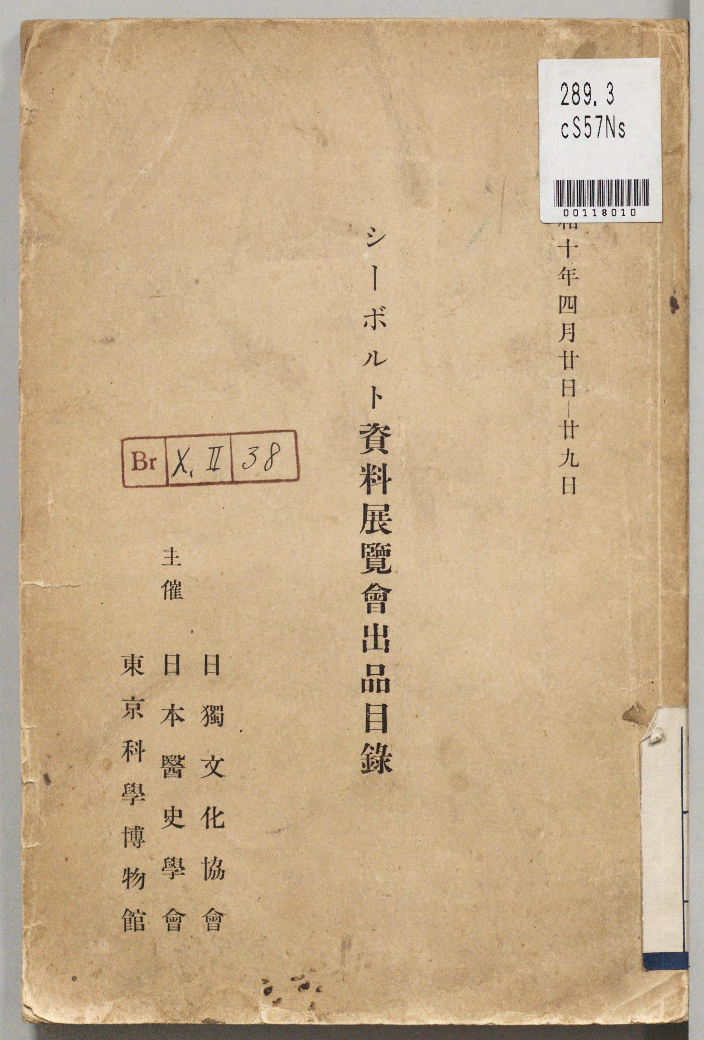 Catalogue of exhibits of Siebold materials exhibition, Tokyo science museum (present-day "National Museum of Nature and Science"), in 1935.